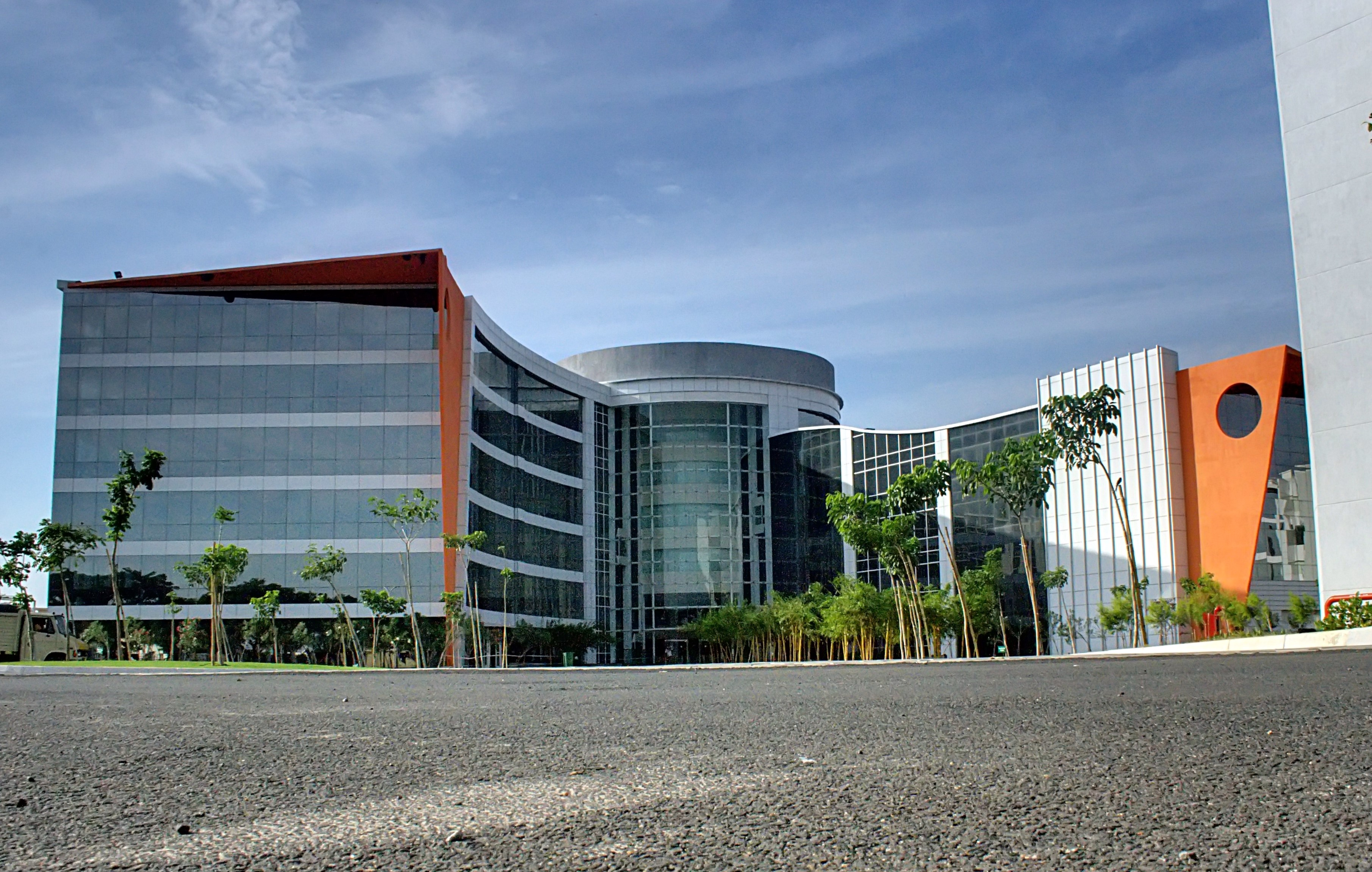 Infosys Mcity,Building number 5